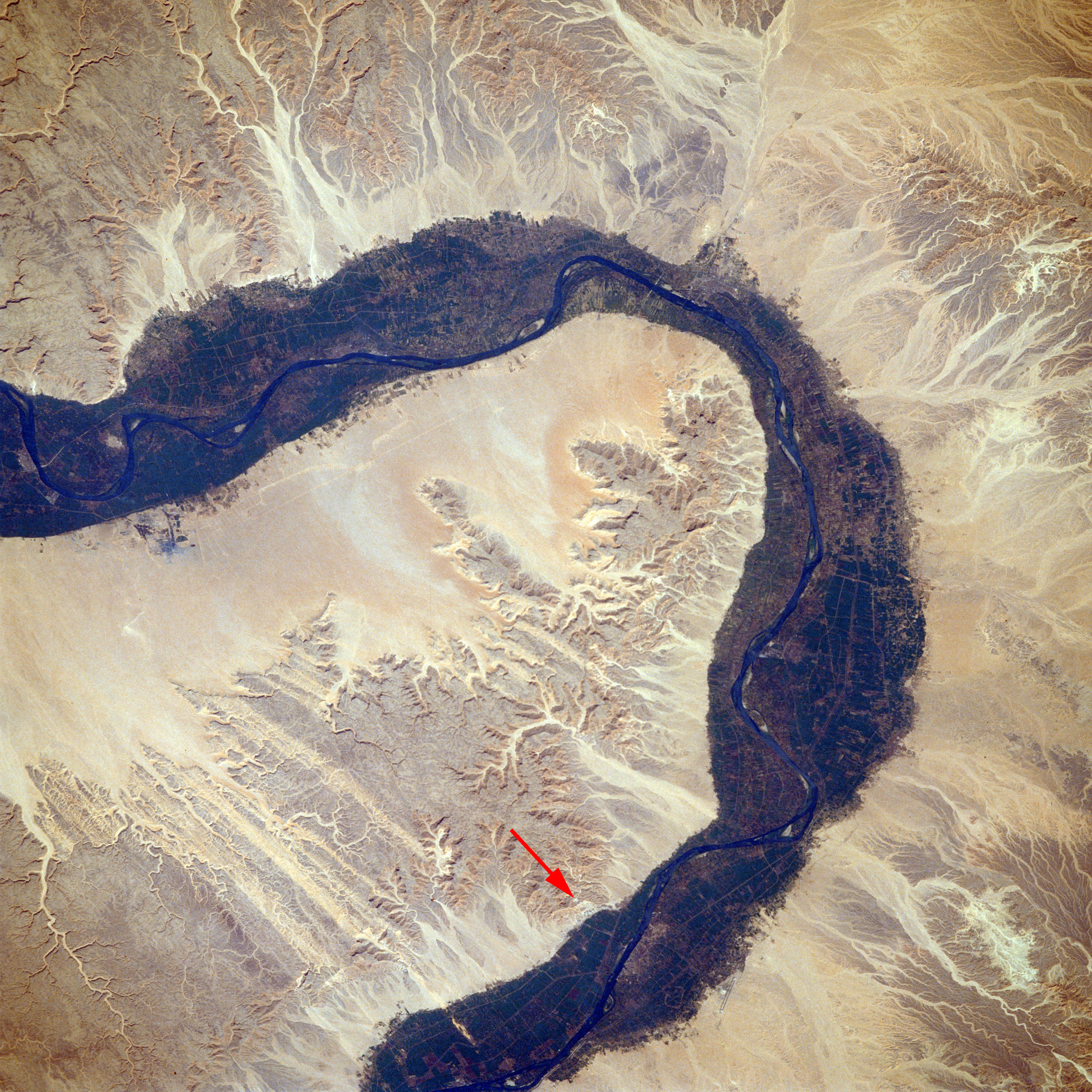 Valley of the Kings, Southern Egypt October 1988 Arid landforms comprise much of this nearly vertical view of a portion of the Nile River. These desert landforms include eroded valleys and wadis (watercourses). The fertile and highly productive green Nile River Valley stands out in marked contrast to the tan desert landscape on either side. This part of the Nile Valley varies in width from 4 to 9 miles (6 to 14 kilometers). Near the southern edge of this photograph, the city of Luxor can be ascertained along the eastern bank of the Nile. The narrow, linear runways of the airport are visible on the edge of the desert east of the city. This particular bend in the Nile River is the home of many historical points of interest-Valley of the Kings, Valley of the Queens, Temple of Luxor, Tomb of Tutankhamen, and Necropolis of Thebes.